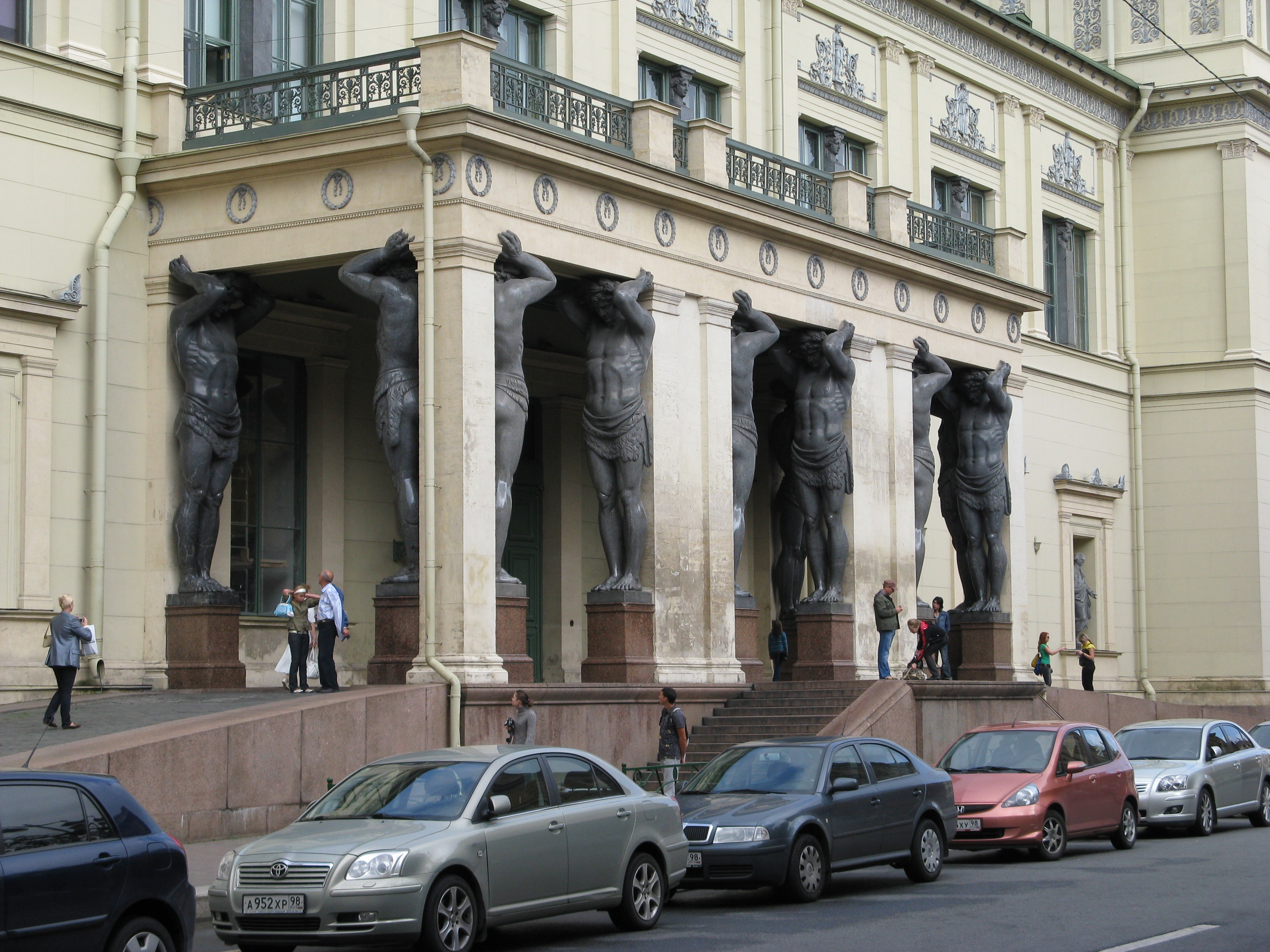 Atlantes cut out of grey granite after the models by sculptor Alexander Terebenev at the New Hermitage.